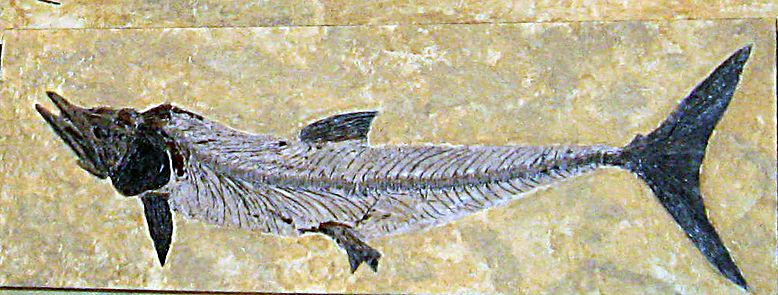 A fossil of the extinct salmoniform fish Cimolichthys nepaholica, Denver Museum of Nature and Science specimen# DMNHS54M.